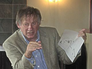 Christopher Alexander leading the workshop on creating the generative code for a new neighbourhood of houses at Strood Sept 2005